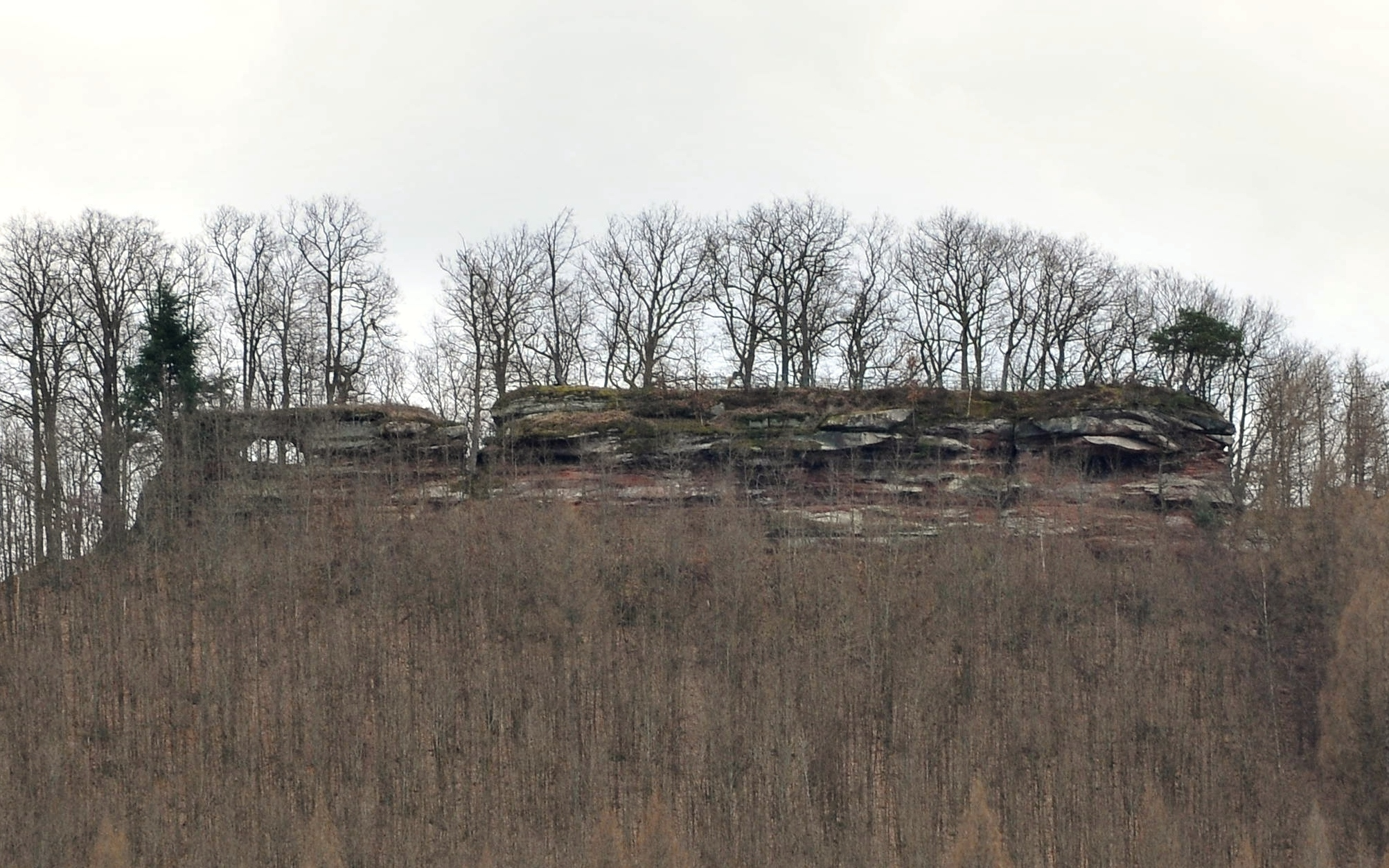 Rock "Lindelskopf"